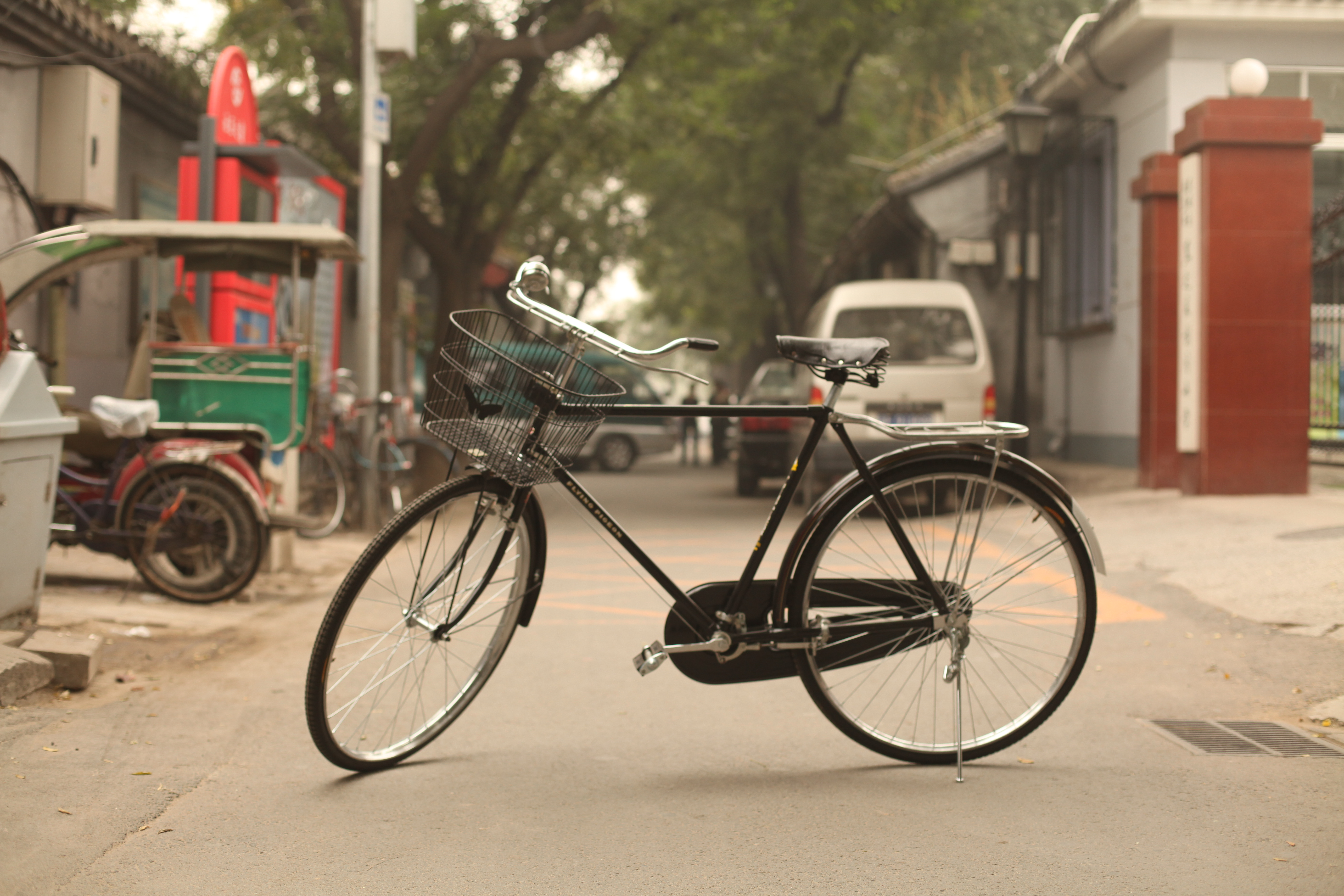 飞鸽自行车 The Flying Pigeon Bicycle